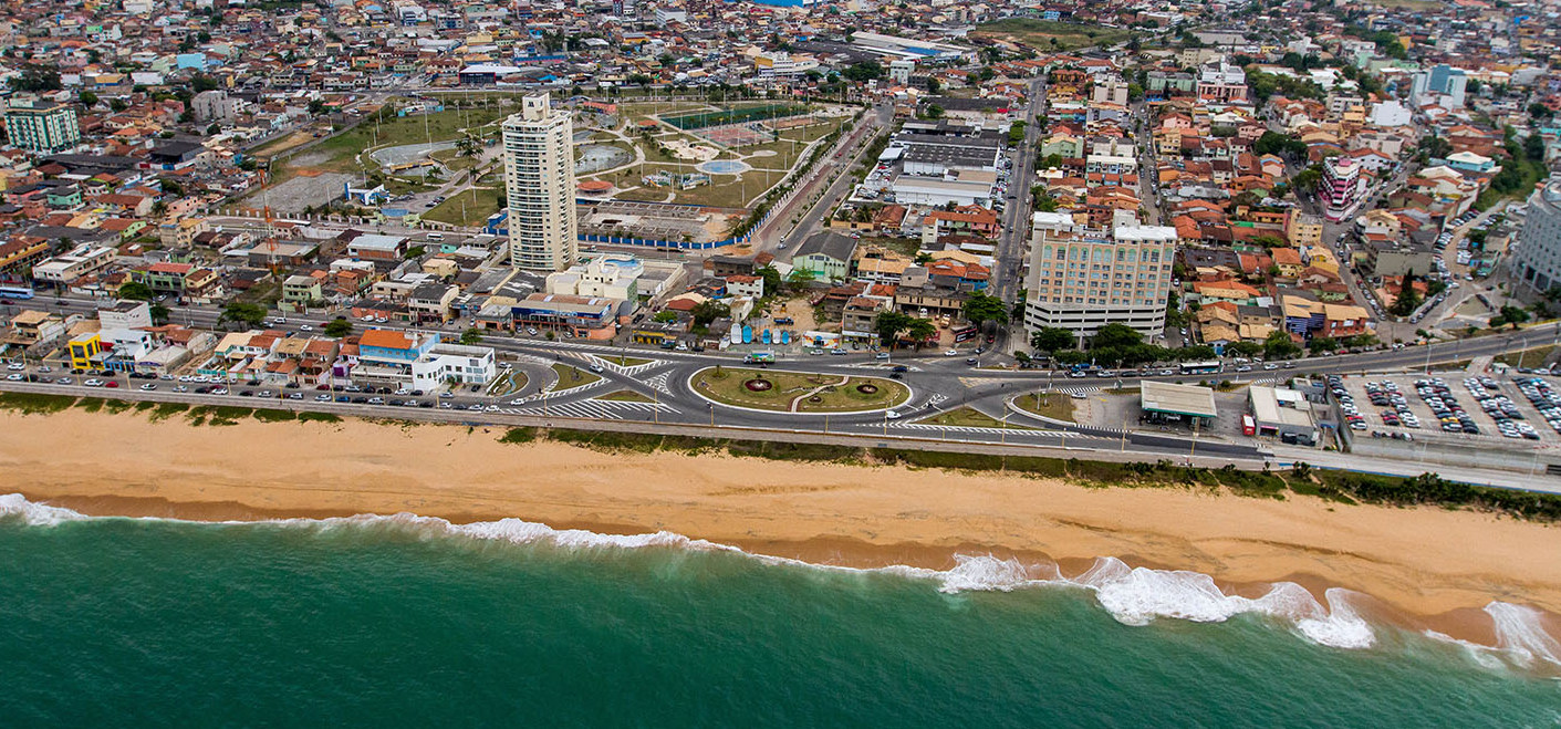 Centro de Macaé